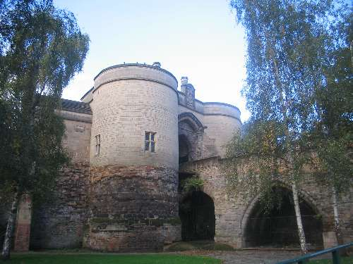 Nottingham Castle Gate House